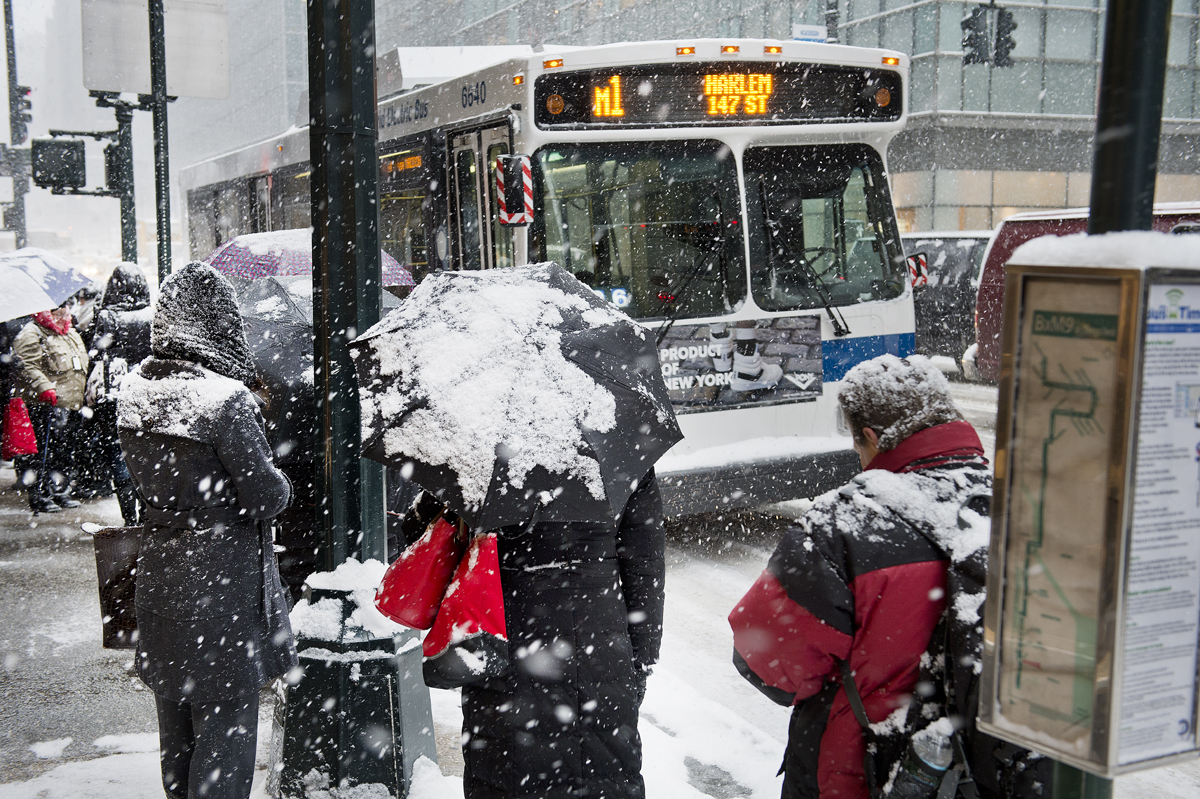 Buses continued to run along Madison Avenue and East 44th St. during the snow storm that hit the New York City area on Tuesday, January 21, 2014. Photo: MTA / Patrick Cashin